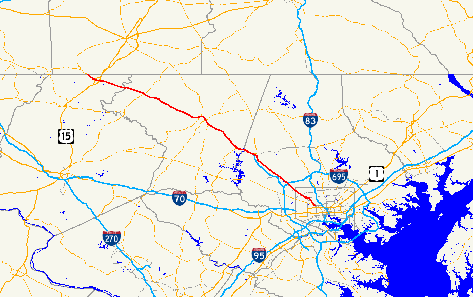 Map of Maryland Route 140